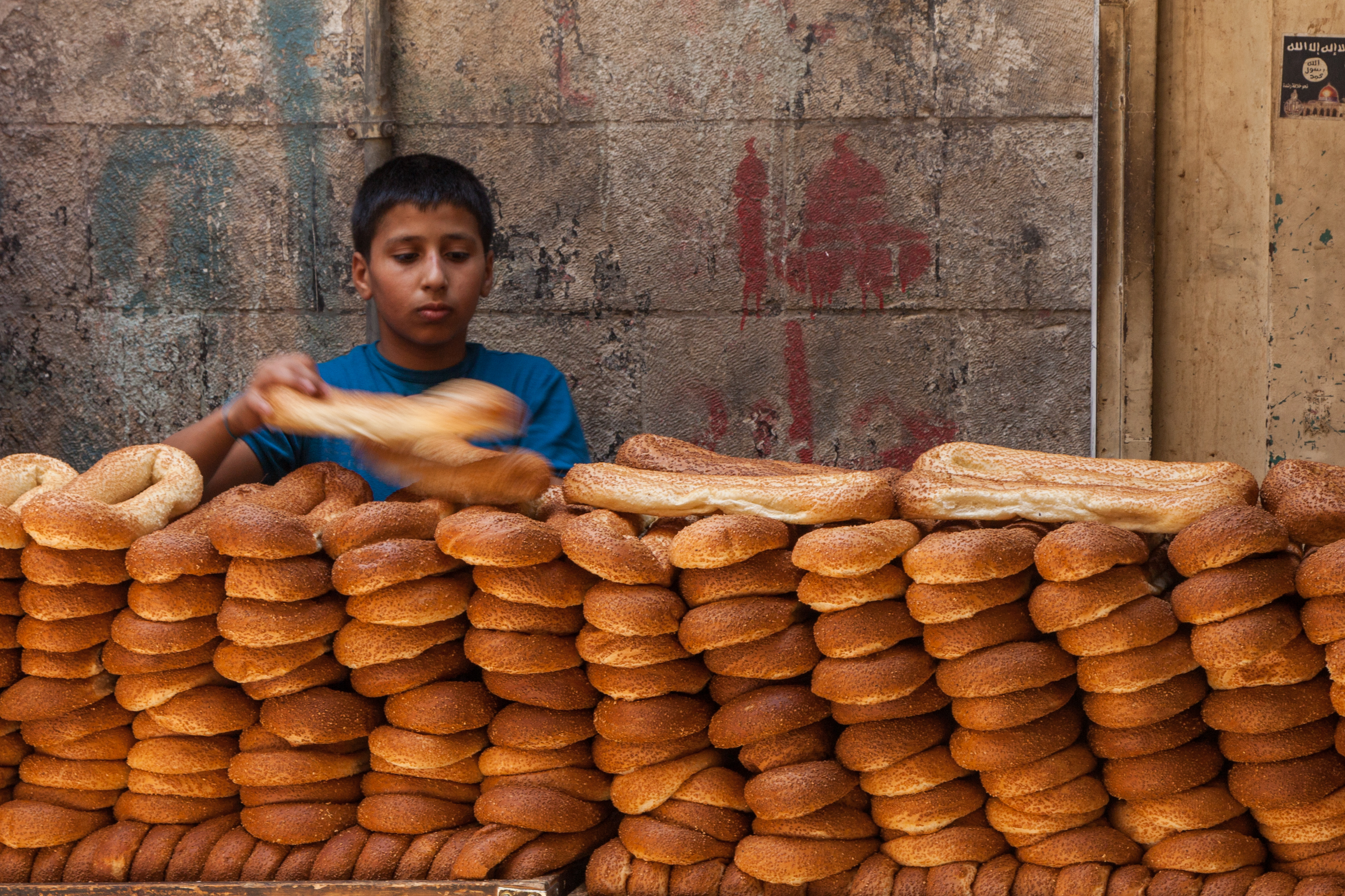 Old Jerusalem, AT-TAKIYYAH Ascent, corner with AL-WAD street. Bagels street vendor. Boy at work.